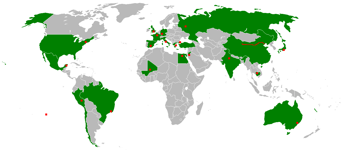 A map of the 21 finalists for the vote of the new seven wonders of the world.